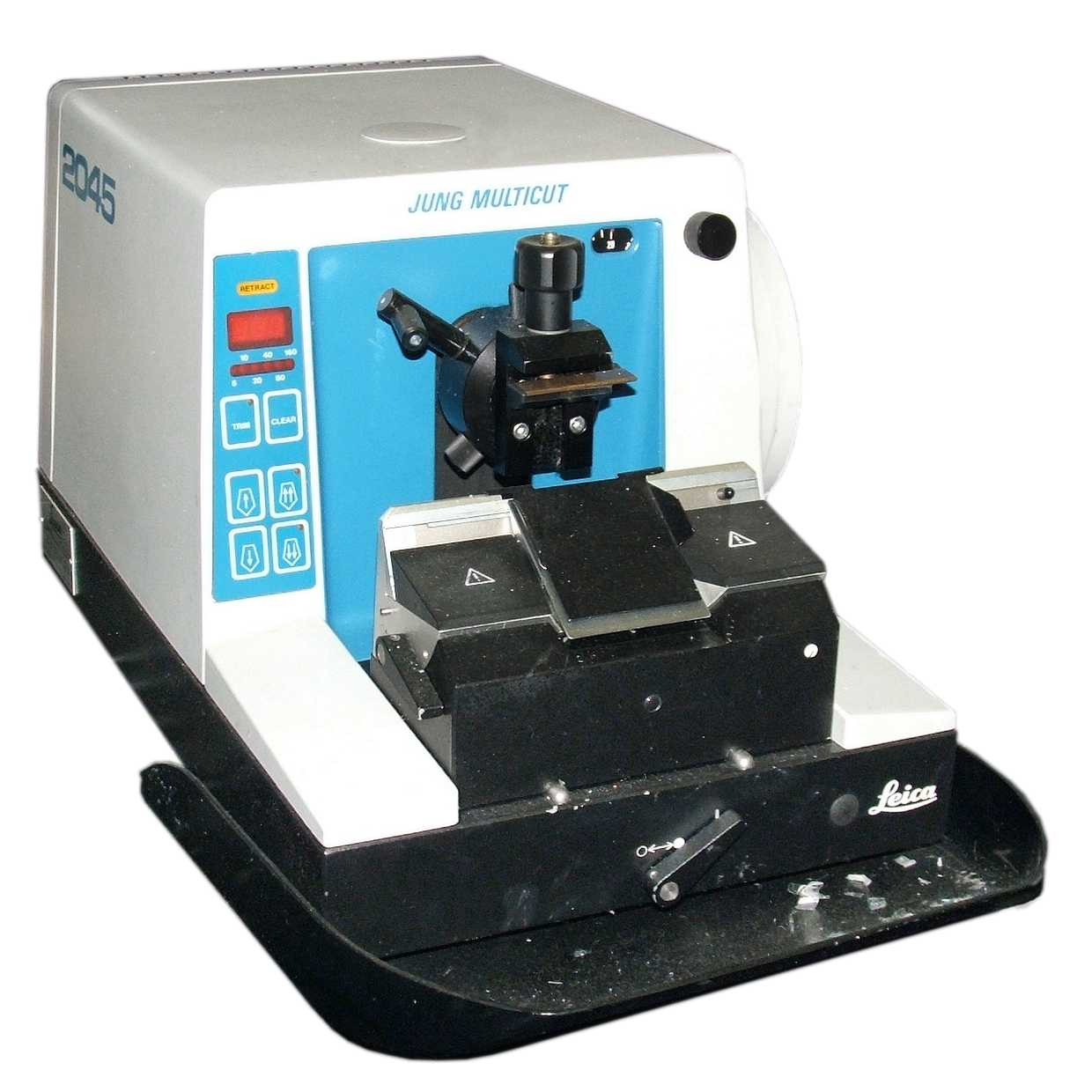 Microtome